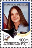 Astronaut Tamara Jernigan on Azeri postage stamp.